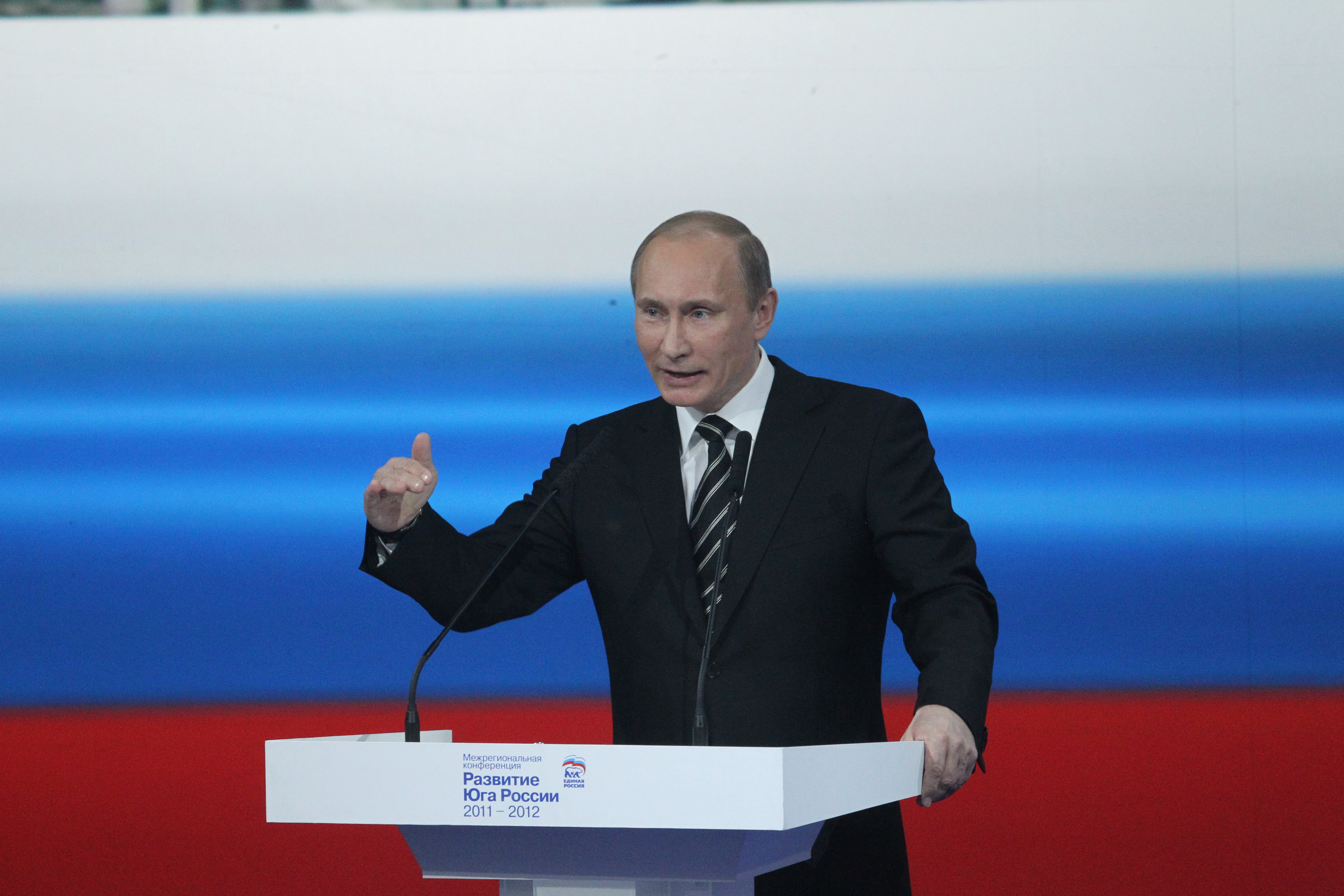 Vladimir Putin proposes the creation of All-Russia Popular Front during the Interregional Conference in Volgograd, 06.05.2011